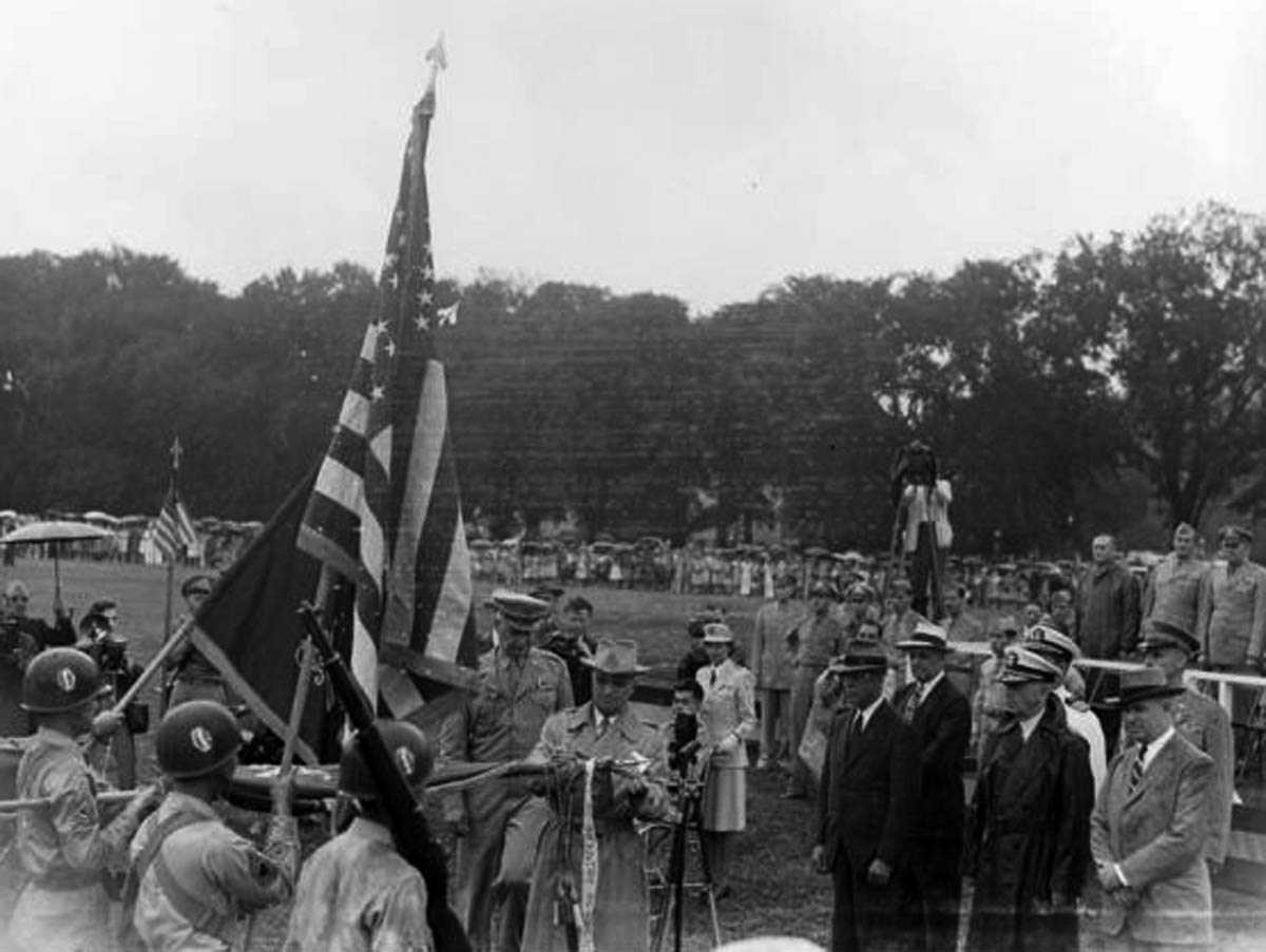 President Truman decorates the colors of the 442d Infantry, presenting the unit with another Presidential Unit Citation.